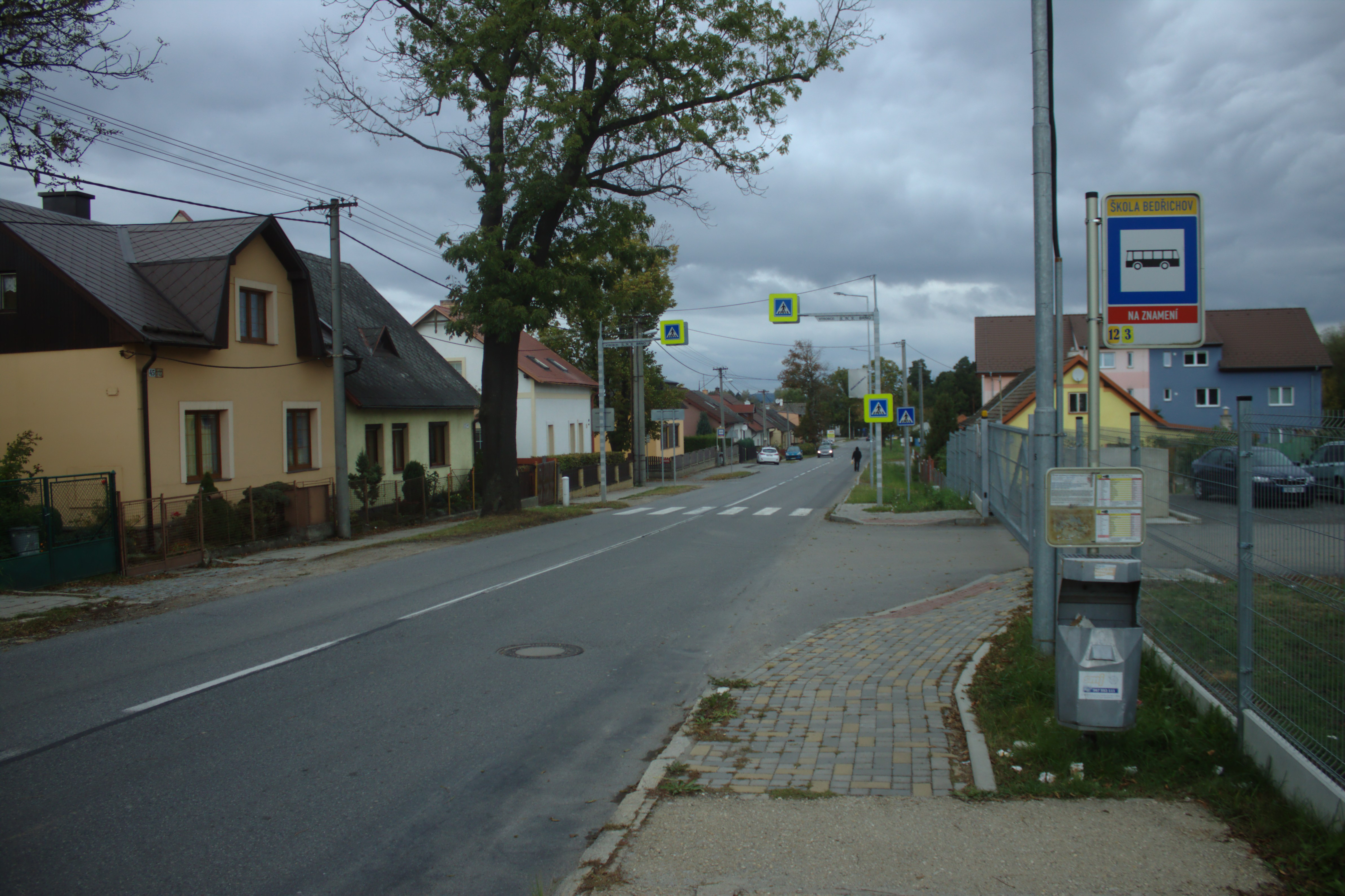 A bus stop at the main road in the village of Bedřichov, sitauted near Jihlava, Vysočina Region, CZ